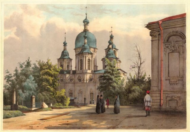 Saint Petersburg (Russia), Strelna, Coastal Monastery of St. Sergius